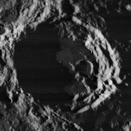 Kibal'chich, on the far side of the moon.